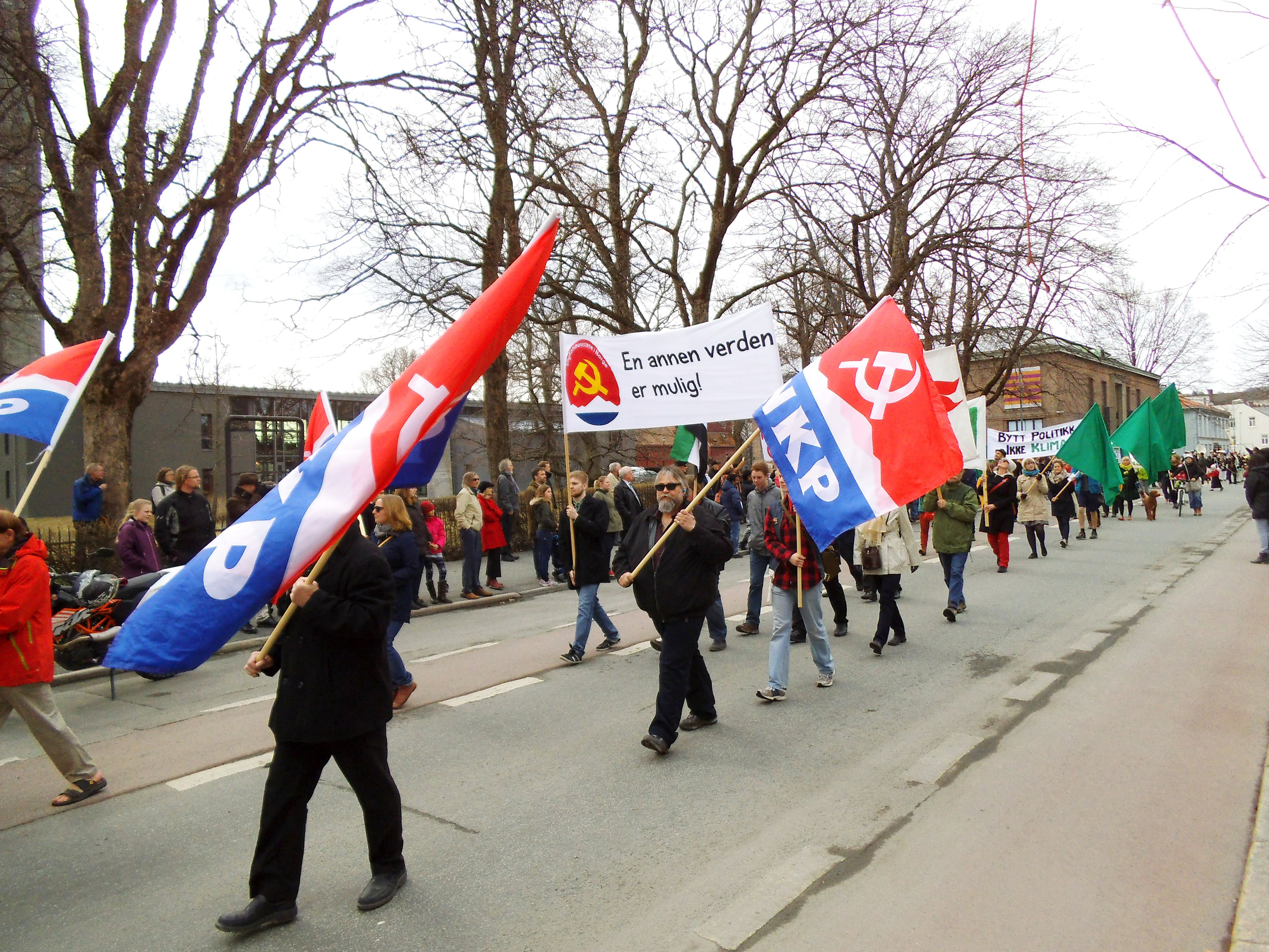 Members of NKP (Communist Party of Norway) participating in the International Workers' Day in Trondheim 2013.